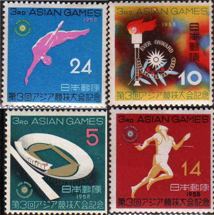 Stamps released by the Postal Services Agency during the 1958 Asian Games